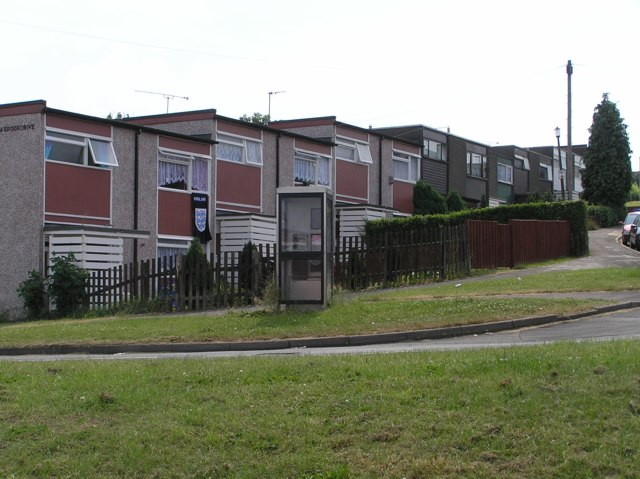 Houses on Scowerdens estate. Can't really say much more. This is the bottom end of Hackenthorpe, the opposite side of the Shirebrook Valley to Woodhouse and Beighton.